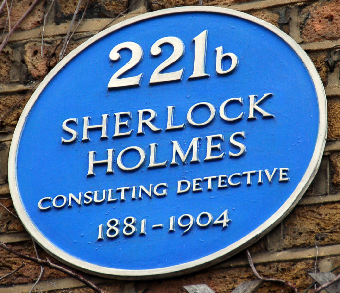 Number sign of the Sherlock Holmes Museum at Baker Street 221b in London, UK